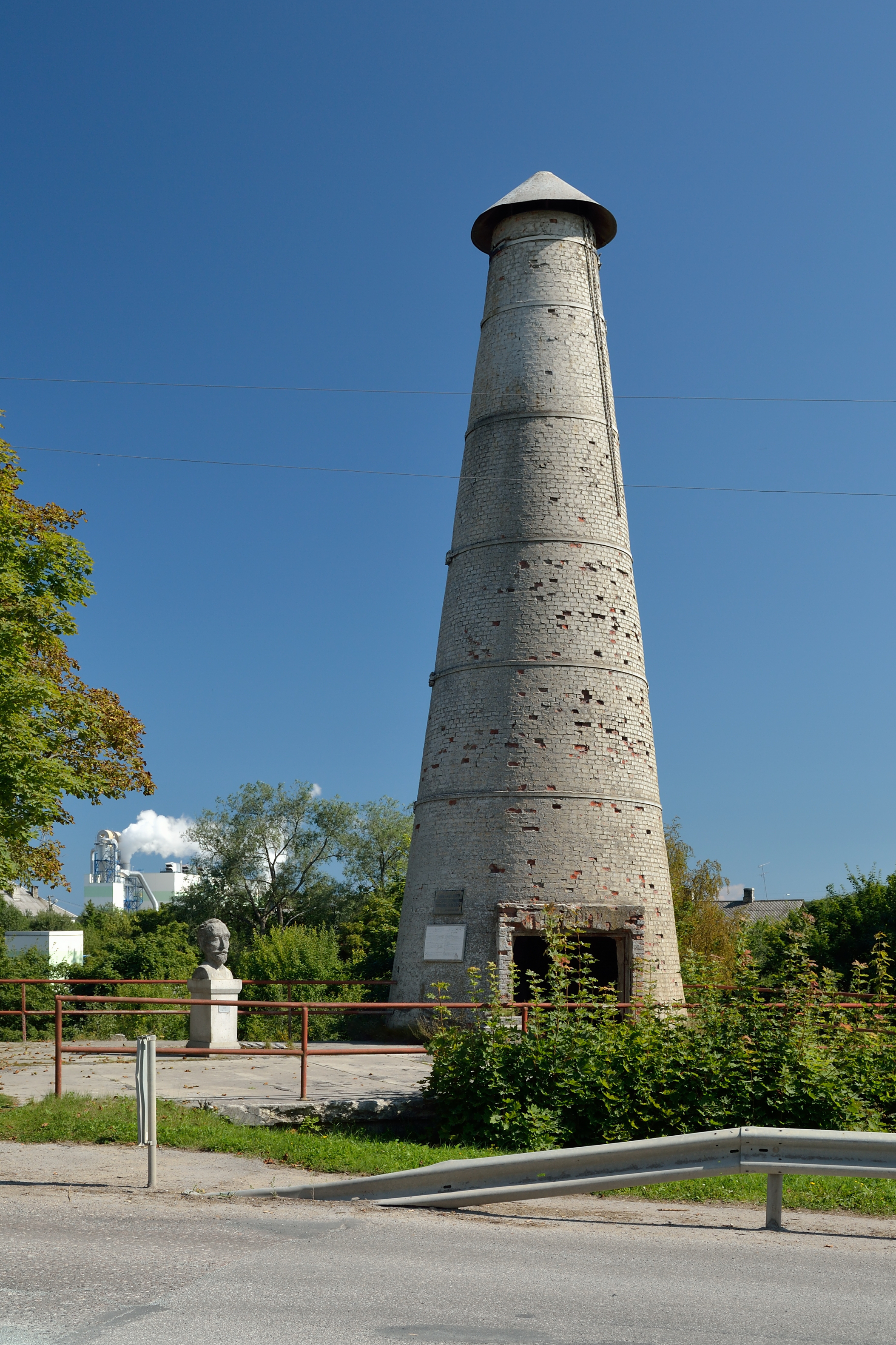 Bottlefurnace of Kunda cement factory, built in 1870